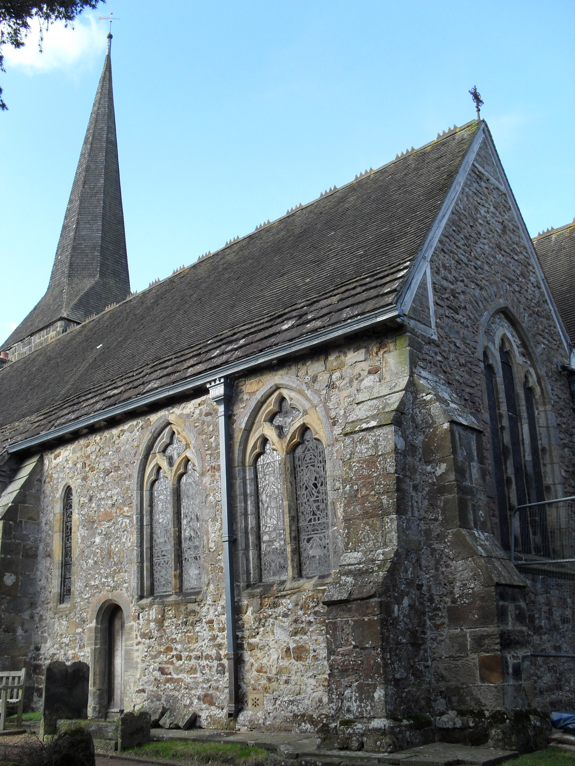 St Margaret's Church, West Hoathly, district of Mid Sussex, West Sussex, England. An Anglican church founded in the 11th century. Listed at Grade I by English Heritage (IoE Code 302844). This view looks from the southeast corner of the chancel.